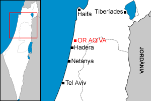 Localization of Or Aqiva within Israel.